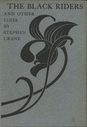 Cover of 1st edition of The Black Riders and Other Lines